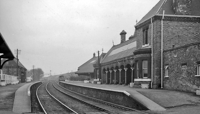 Brotton Station (remains). View northward, towards Loftus and Whitby; ex-North Eastern Middlesbrough (via Boosbeck) and/or Saltburn - Loftus - Whitby - Scarborough lines. The Brotton - Saltburn service ceased on 6/9/57 but the line remains open for goods; Whitby (West Cliff) - Loftus closed 3/5/58; Loftus - Boosbeck/Guisborough closed 30/4/60, when Brotton station closed to passengers. Boosbeck - Brotton closed completely 12/9/64; however on 1/4/74 a single line was restored and freight traffic continues from Boulby and Skinningrove through Brotton.